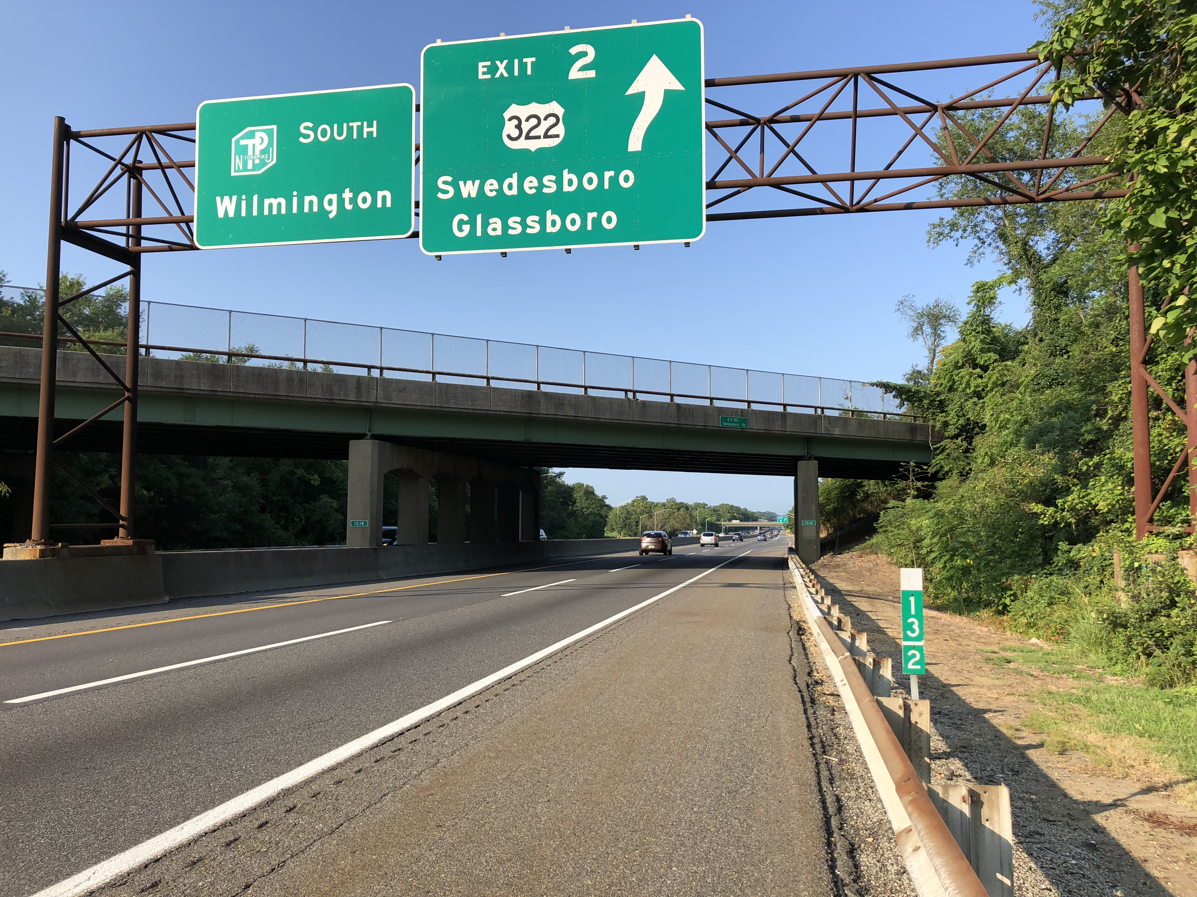 View south along New Jersey State Route 700 (New Jersey Turnpike) at Exit 2 (U.S. Route 322, Swedesboro, Glassboro) in Woolwich Township, Gloucester County, New Jersey